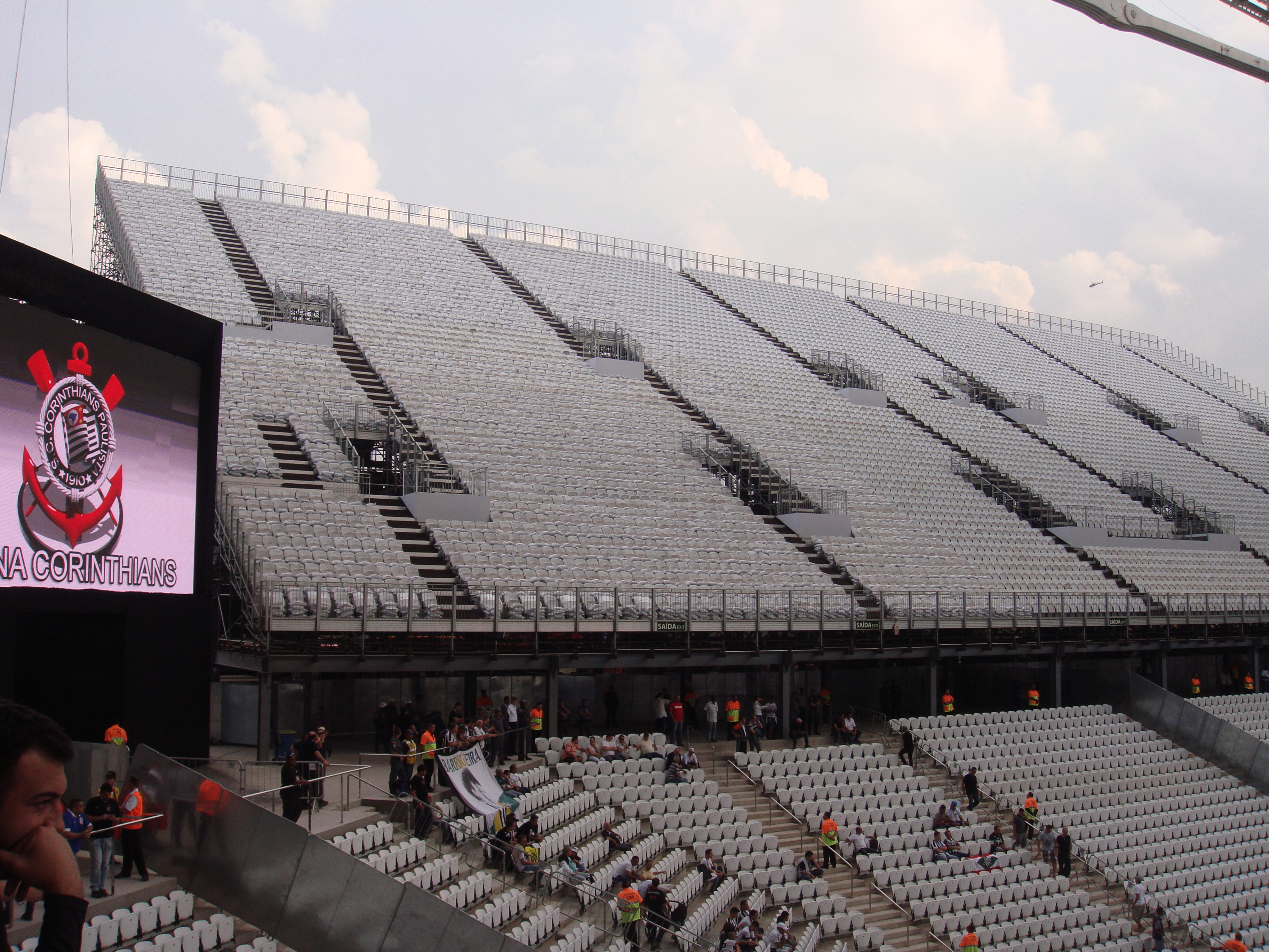 Temporary Seating and Scoreboard on the South End for the World Cup